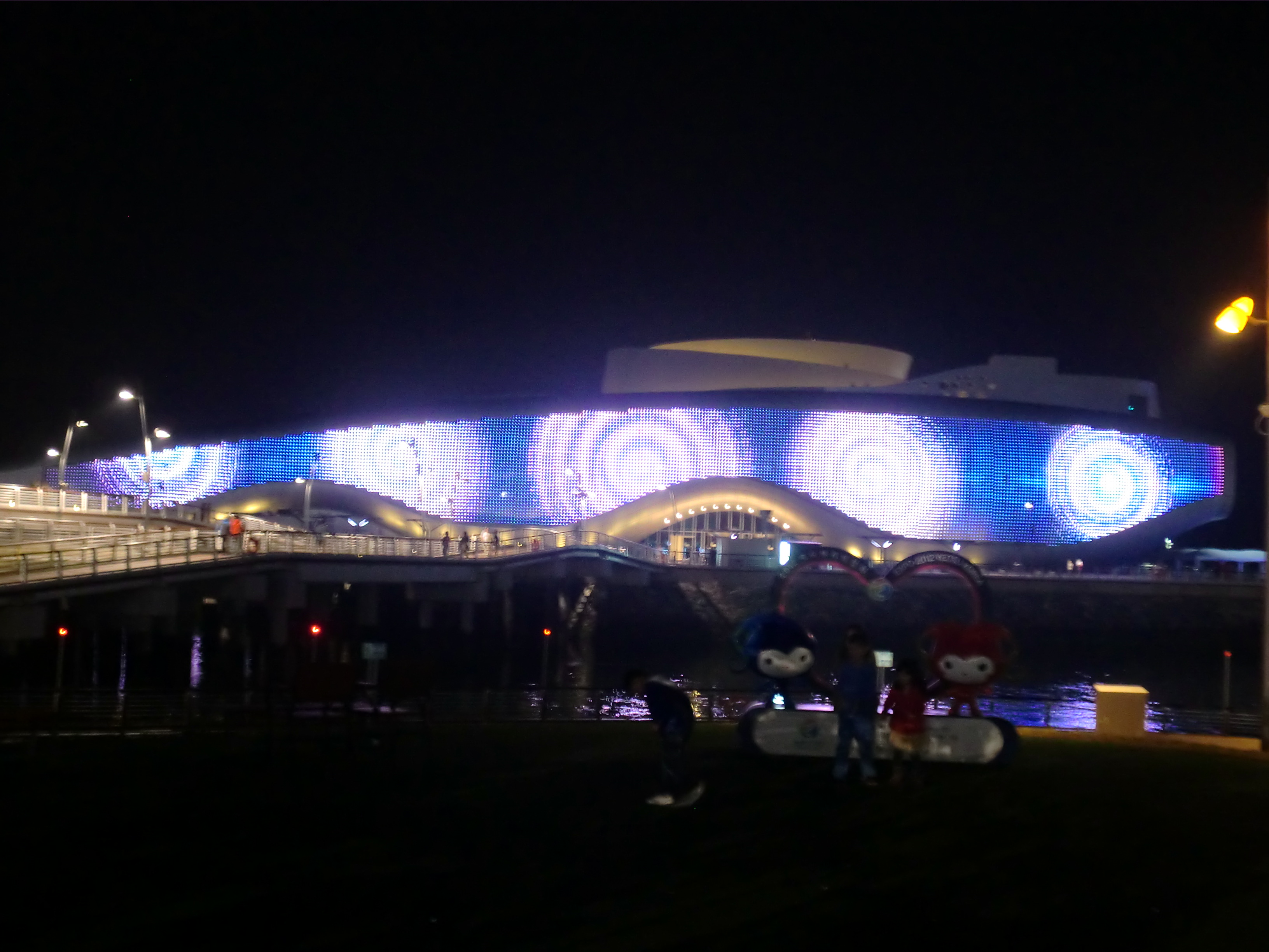 Expo2012 Theme pavilion